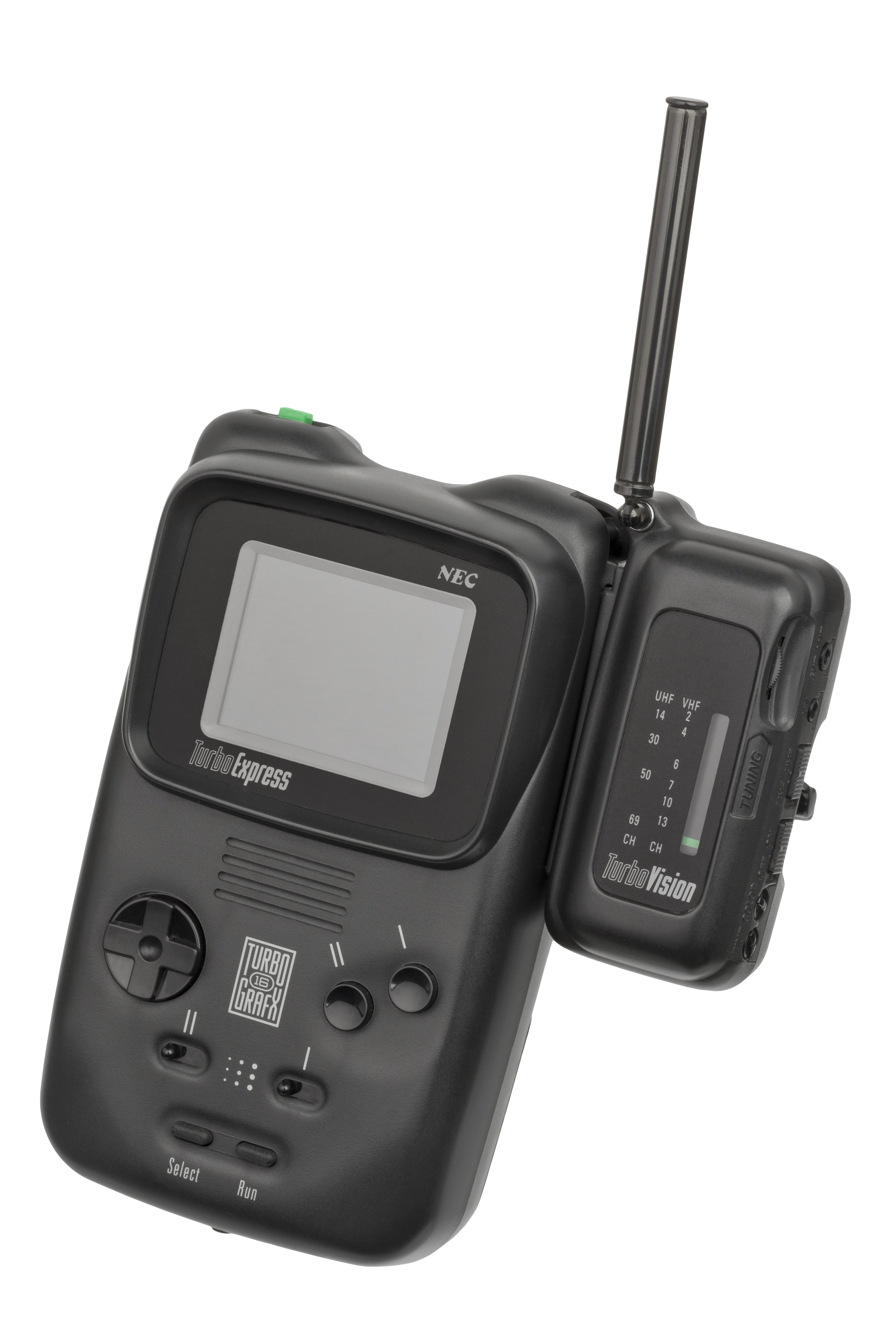 The TurboExpress, a portable variant of the TurboGrafx-16 video game console that was released in 1990. It is shown here with the TurboVision, an add-on that turned the system into a portable TV.